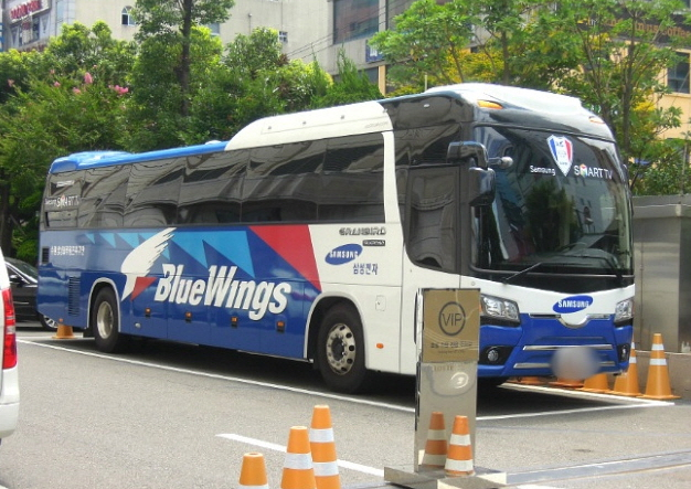 Suwon Samsung Bluewings bus